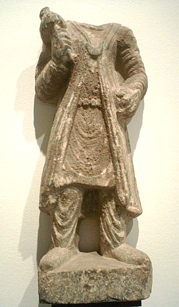 Detail of Kushan costume. Gandhara. Musée Guimet. Personal photograph.